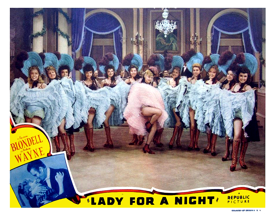 Colored lobby card for Lady For a Night (Republic, 1942). Image is assumed to be in the public domain, as no copyright notice is in evidence.